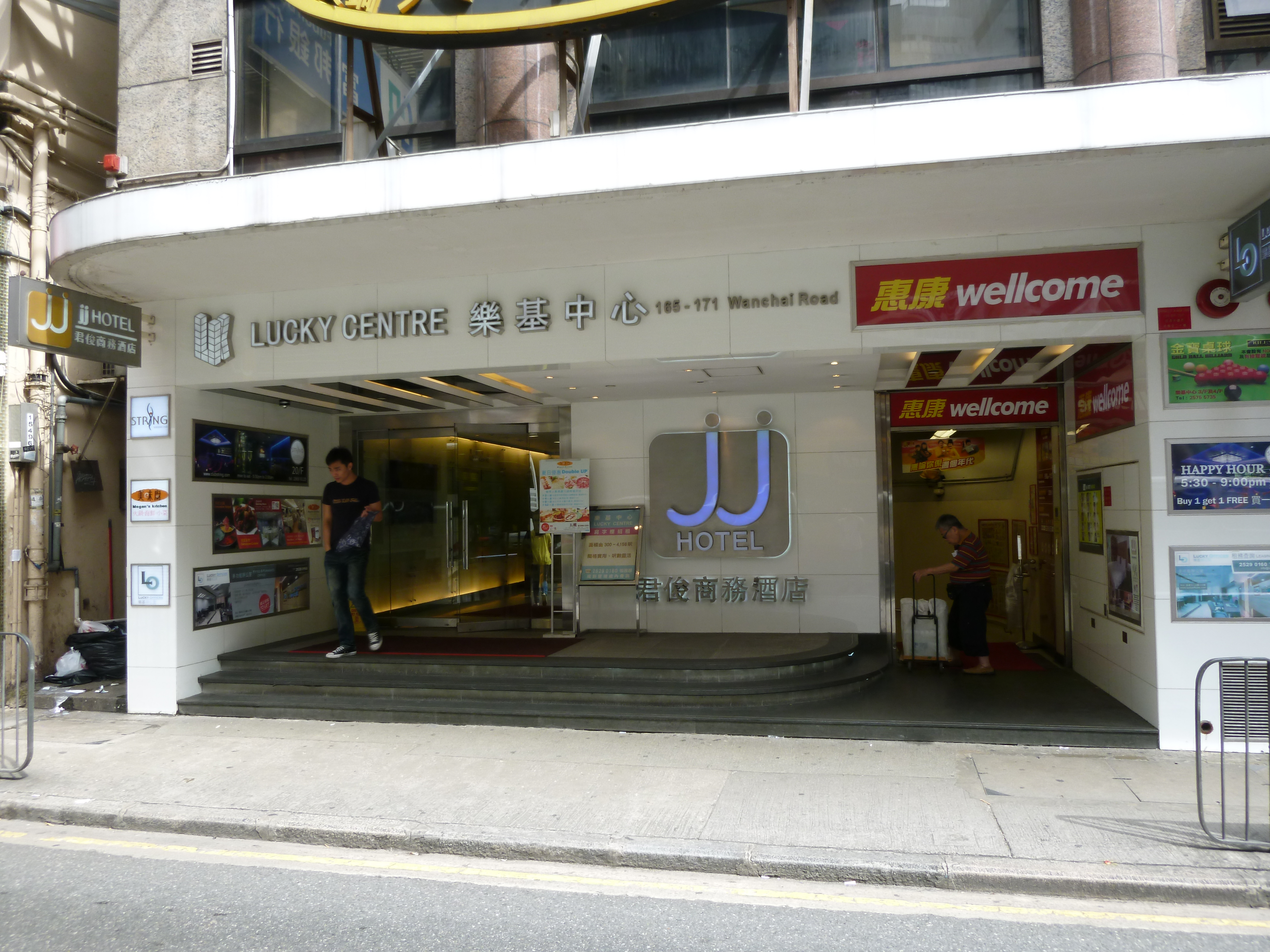 JJ Hotel (Lucky Centre, 165-171 Wanchai Road, Wanchai, Hong Kong)中文（香港）: 君俊商務酒店 (香港灣仔灣仔道165-171號樂基中心)